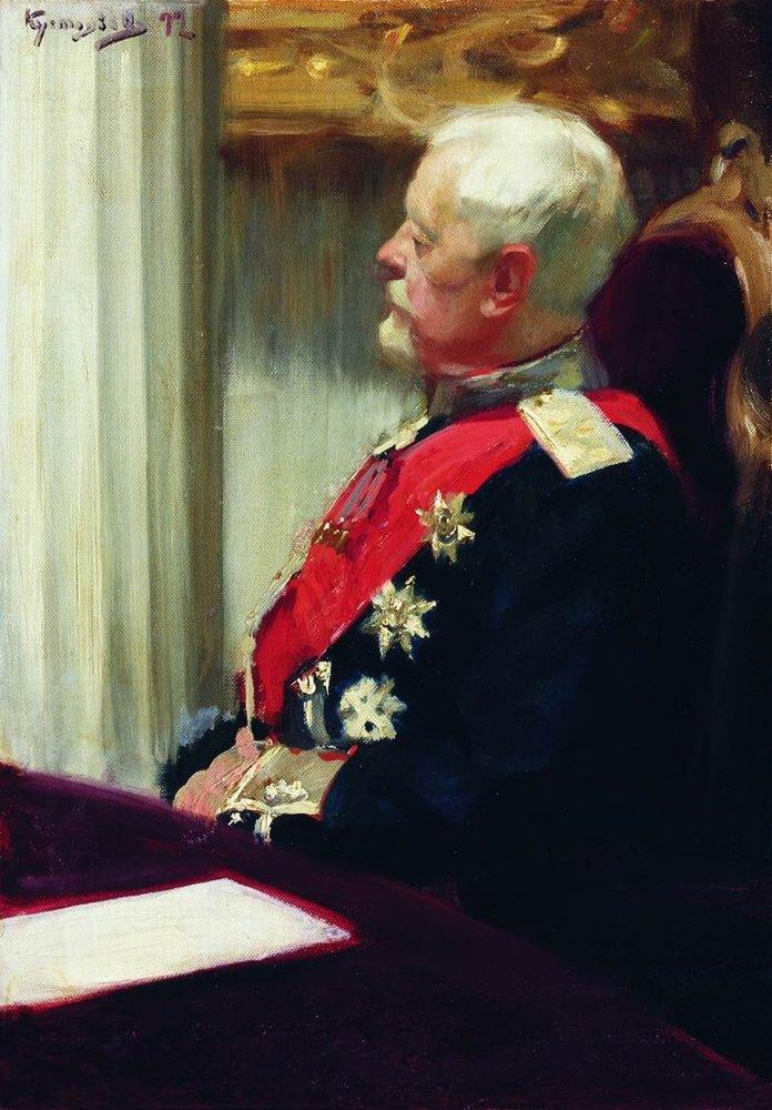 Portrait of infantry general and member of State Council Khristofor Khristoforovich Roop. Study for the picture Formal Session of the State Council. Oil on canvas. 79 × 54 cm. Dnipropetrovsk State Art Museum.